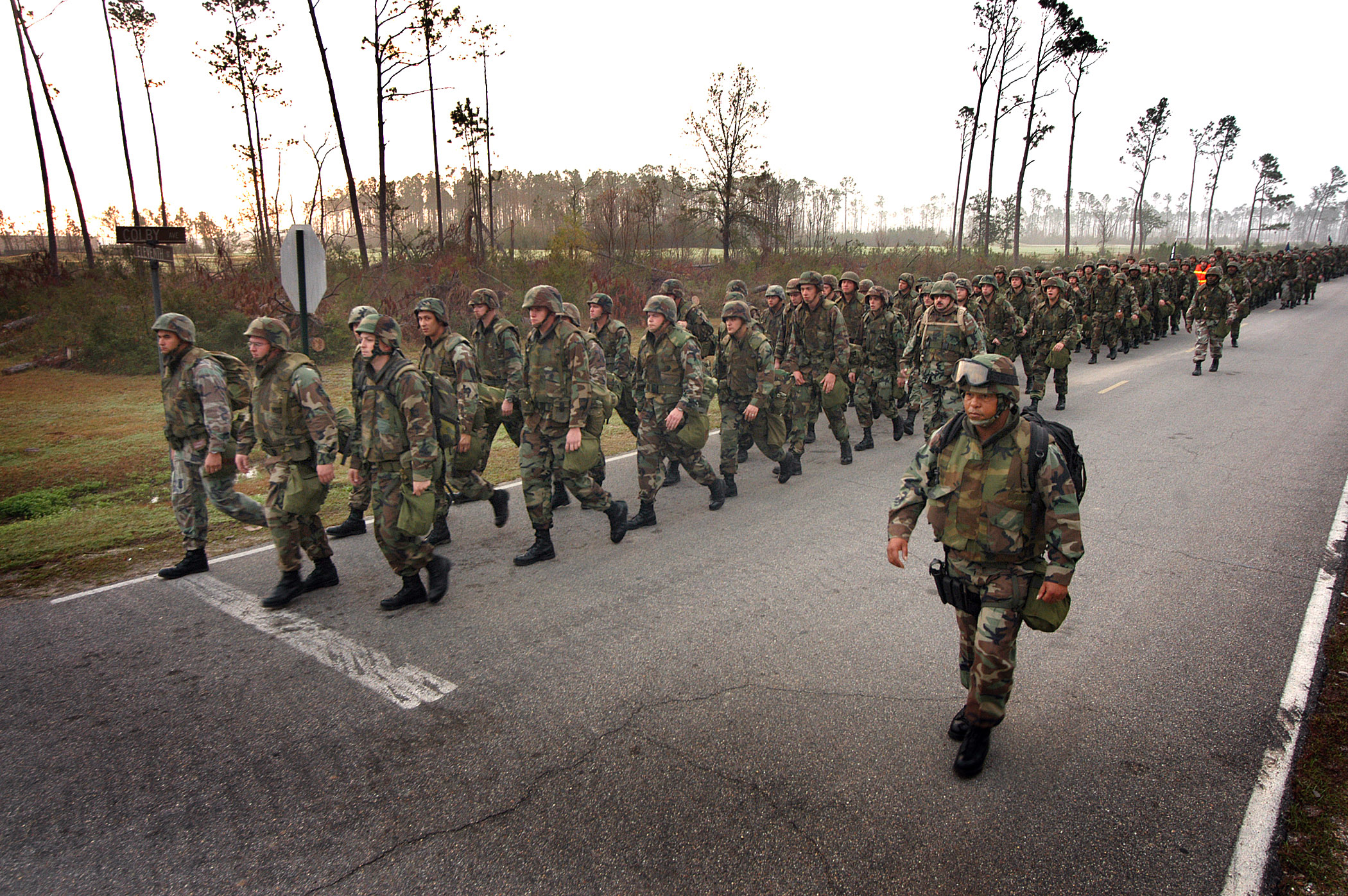 060203-N-3879H-001 Gulfport, Mississippi. (Feb. 3, 2006) - Master Chief Equipment Operator Jeffery Robinson, right, assigned to Naval Mobile Construction Battalion One (NMCB-1) leads Mike Company seabees during a battalion march at Construction Battalion Center, Gulfport. NMCB-1 seabees are preparing for their upcoming field exercise, "Operation Steel Shanks," which will sharpen the battalion's combat and contingency construction capabilities. U.S. Navy photo by Journalist 1st Class Dennis J. Herring (RELEASED)